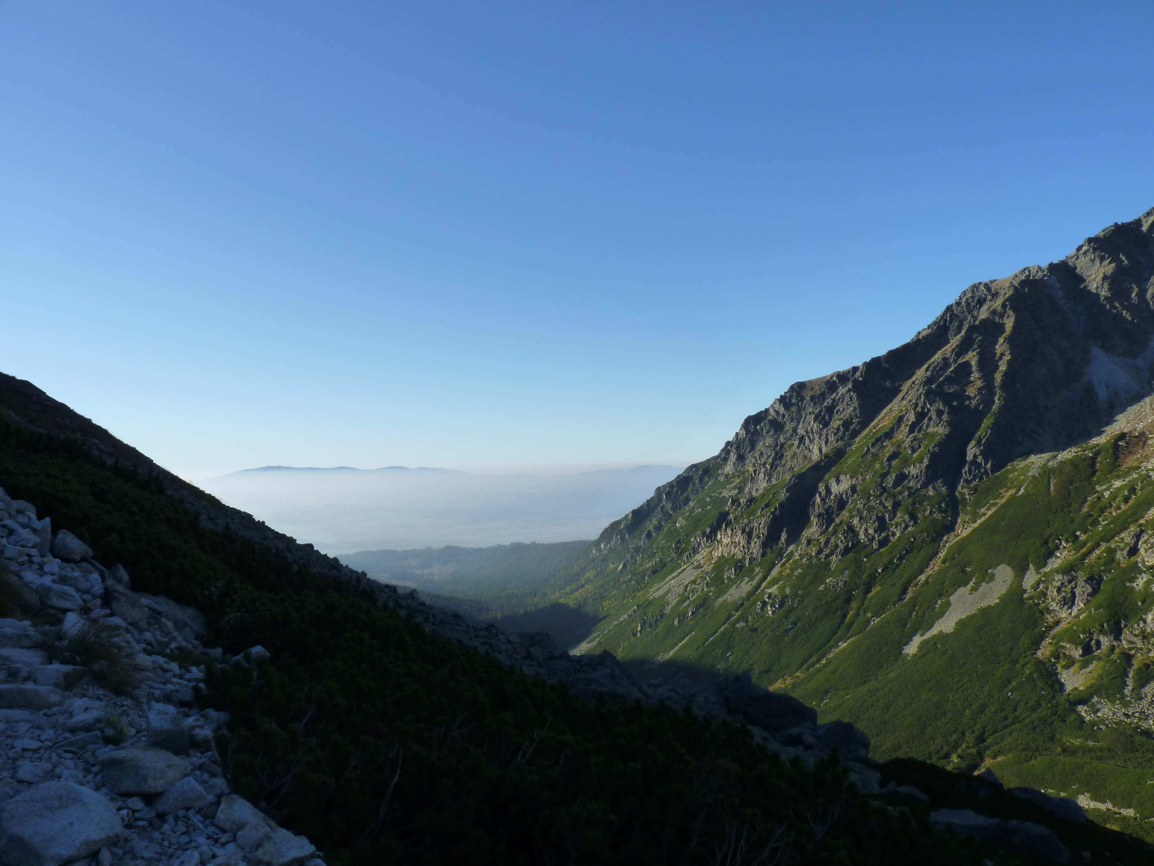 Mengusovská valley, High Tatra Mountains, Slovakia